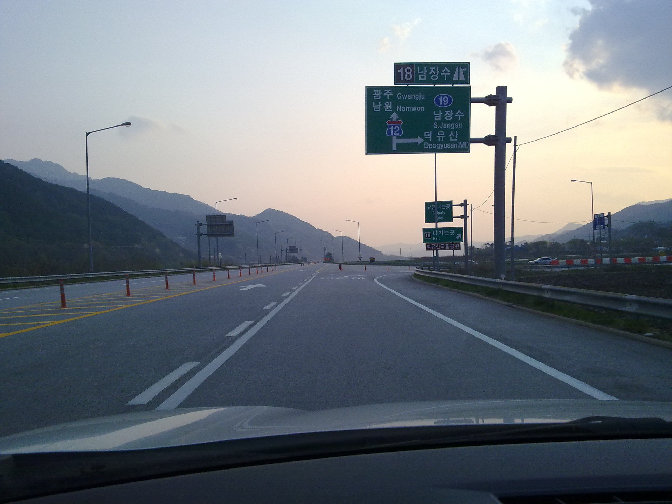 88Olympic Highway Namjangsu IC